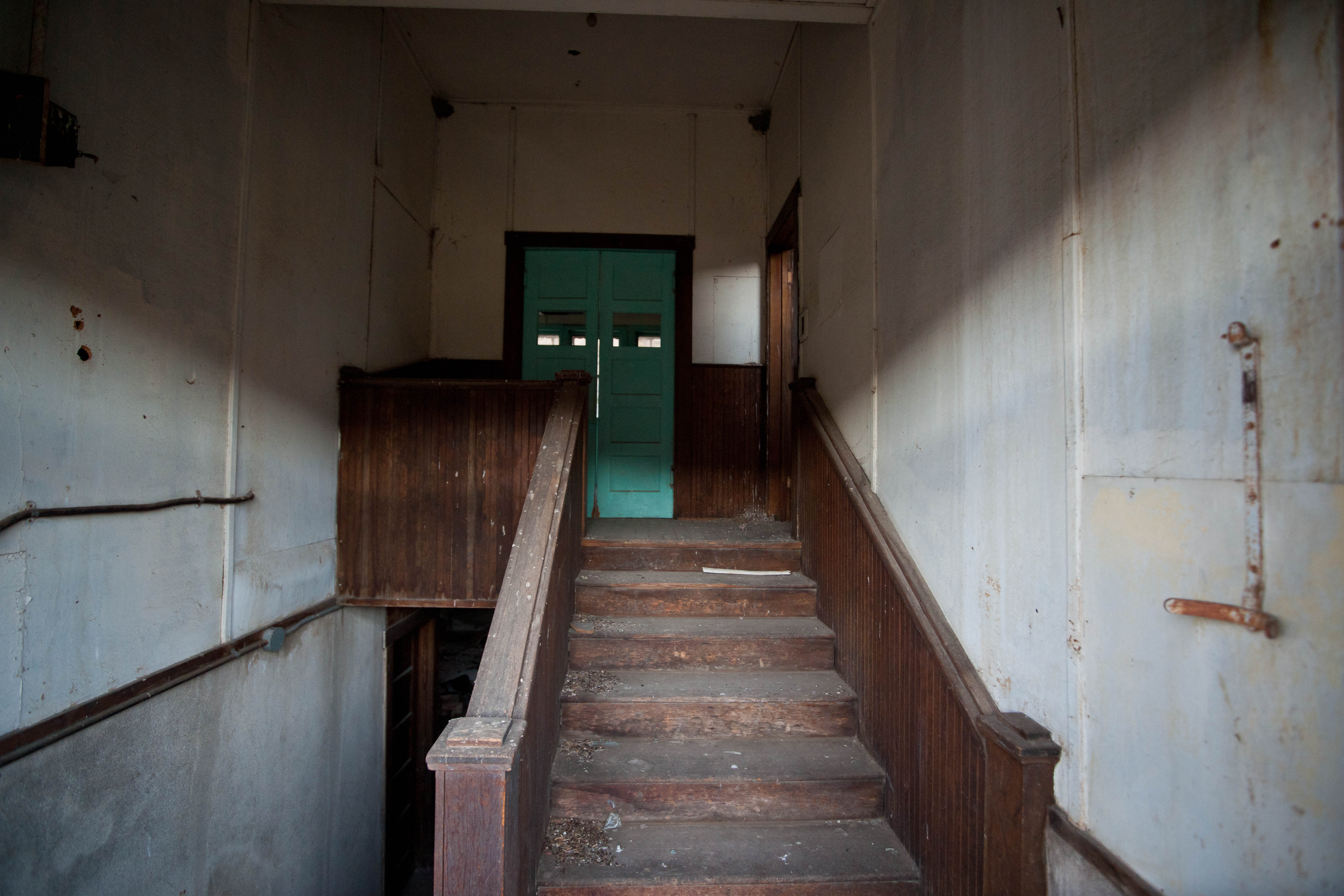 From